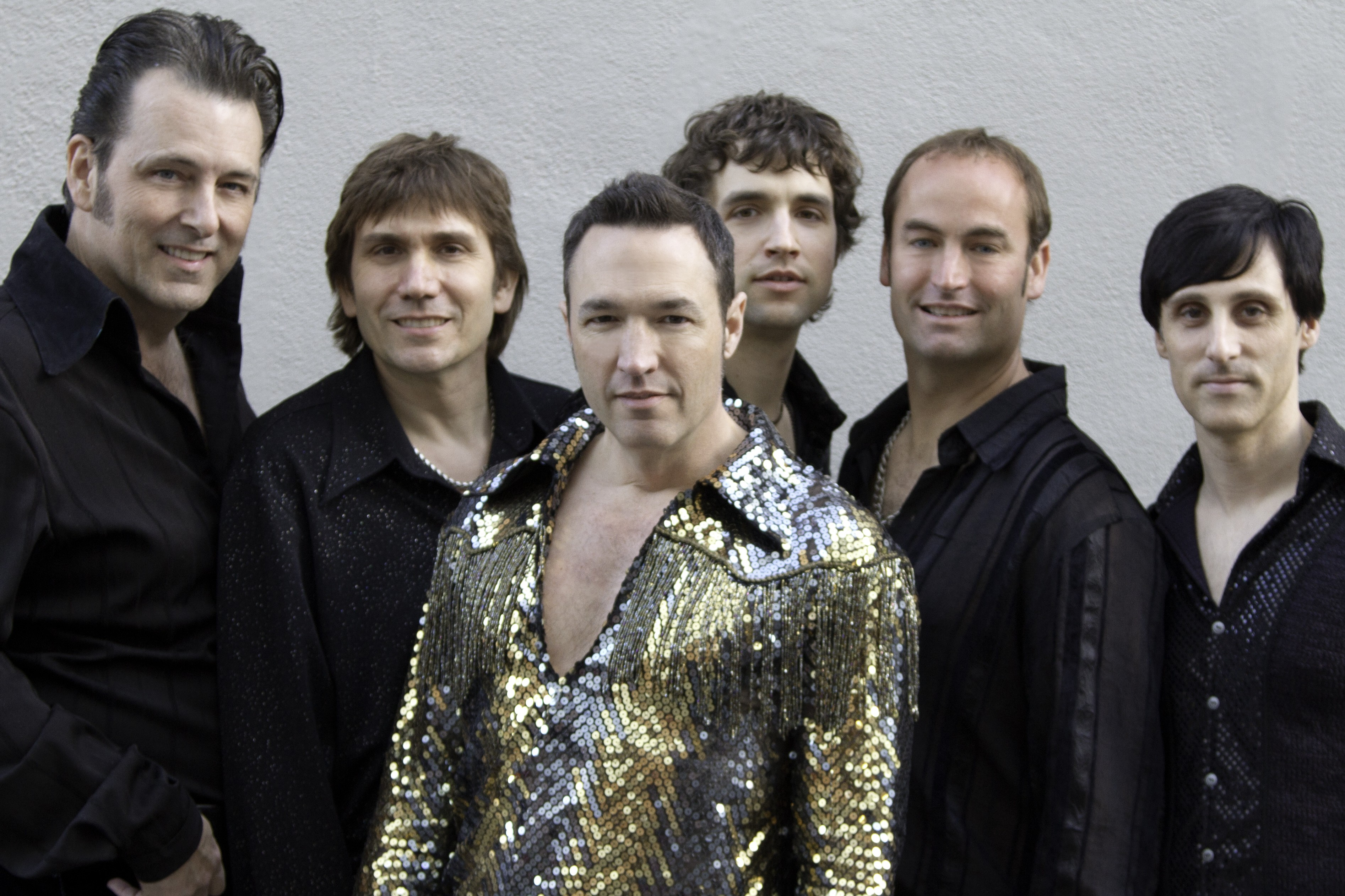 Super Diamond 2017